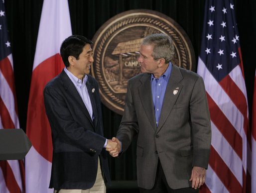 President Bush and Prime Minister Abe of Japan Participate in a Joint Press Availability at Camp David